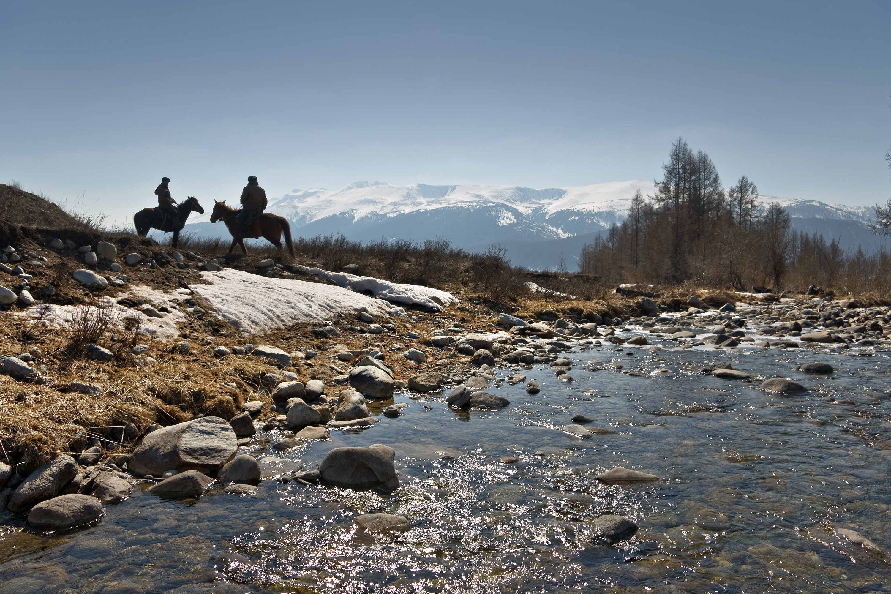 Forestry officers in Markakol reserve, Altay Mountains